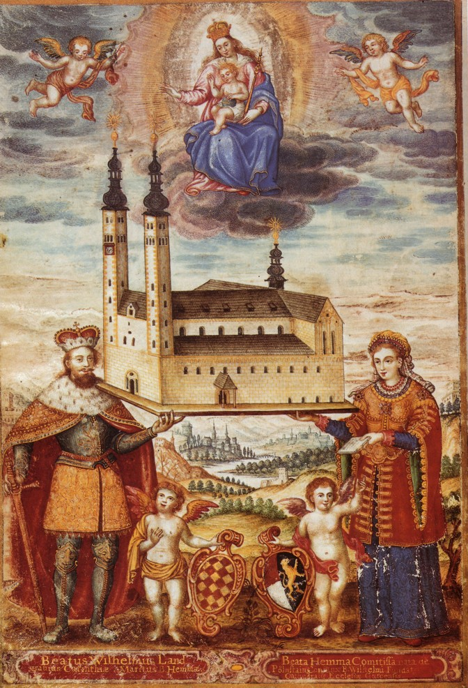 Hemma of Gurk and her husband Wilhelm, holding a model of the dome of Gurk